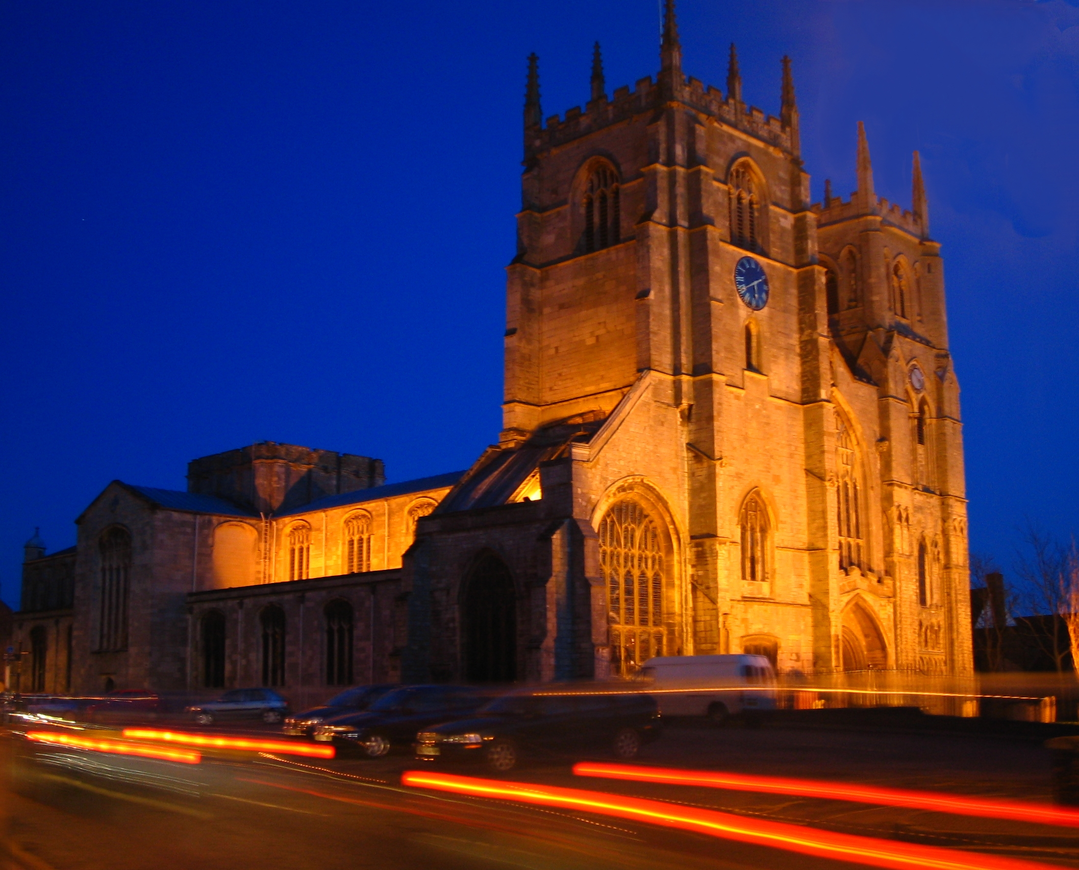 St Margaret's parish church, King's Lynn, Norfolk, seen from the northwest at night. This is a digital combination of two photographs. I (Ben Dickson) took the original photographs on 14 February 2006 with a Canon iXus i Digital Camera.